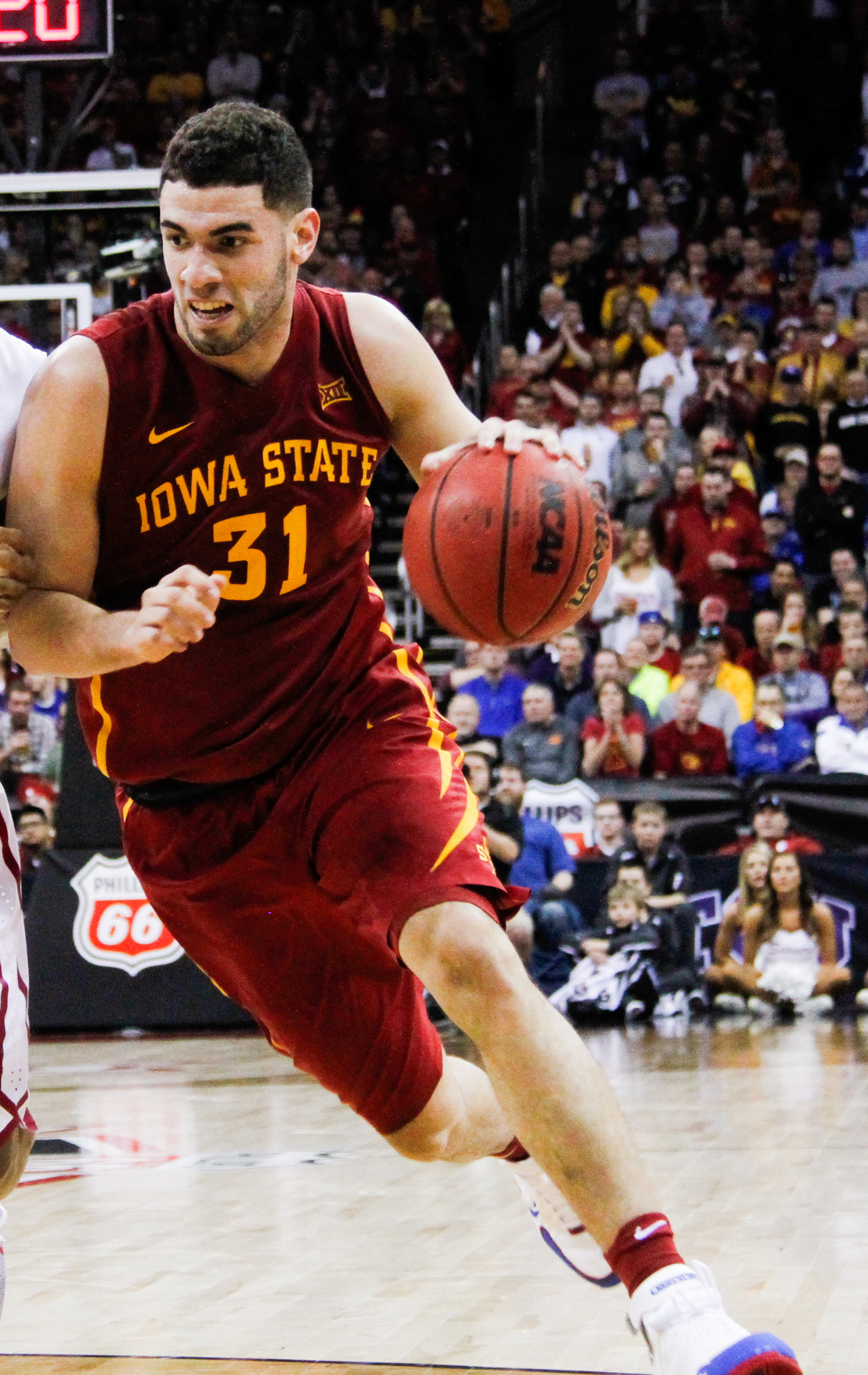 After being down at halftime, the Cyclones fought back, but fell short in their first game of the Big 12 Championship, losing to the Oklahoma Sooners 79-76.